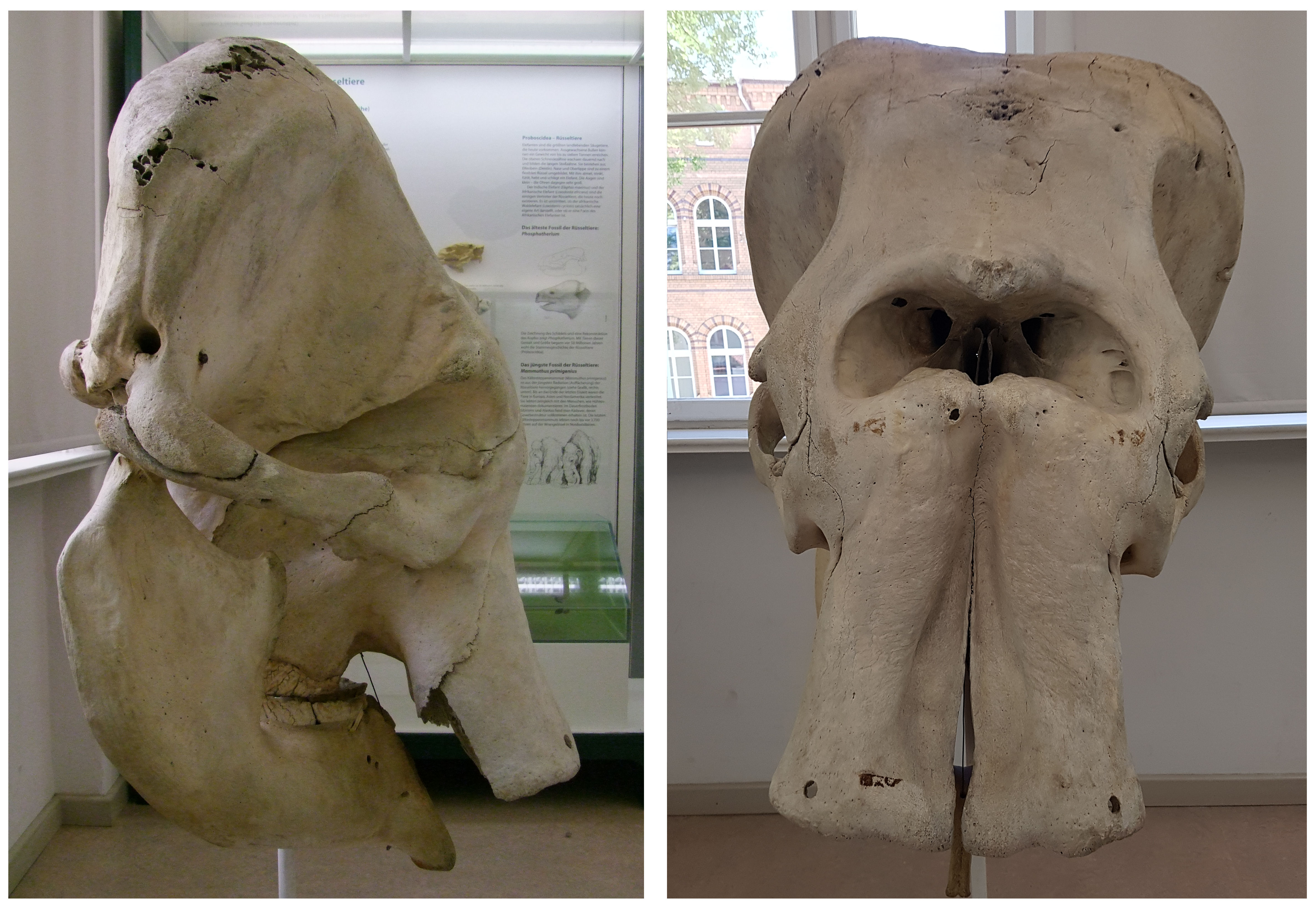 Skull of Elephas maximus, left: lateral view, right: frontal view; photographed in the Phyletisches Museum Jena, Germany